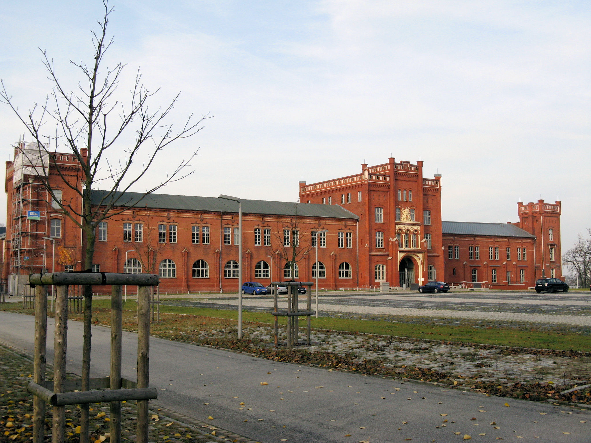 Alte Artelleriekaserne (Old Artillery Barrack) in Schwerin, Mecklenburg-Vorpommern, Germany